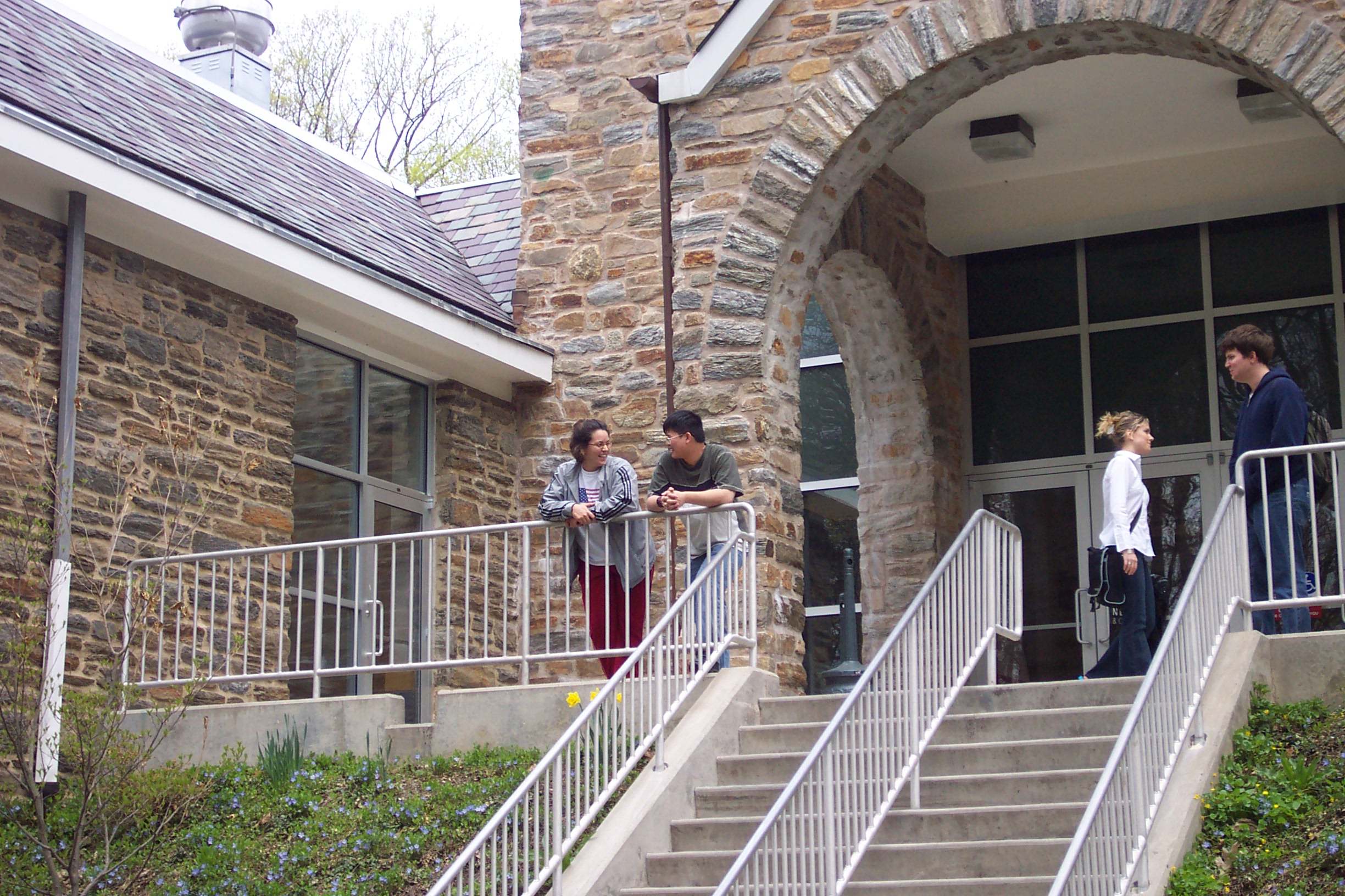 The Lares Building at Penn State Abington, on April 22, 2003.